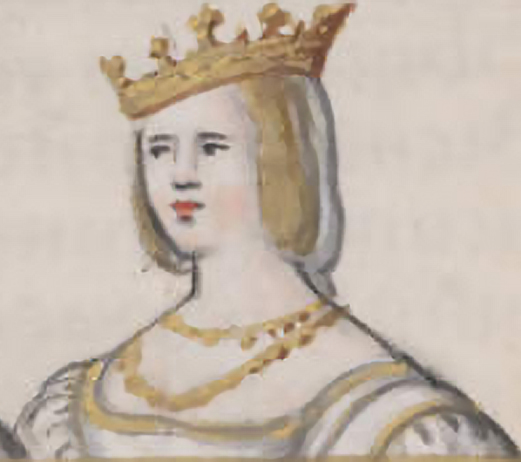 Leonor of Castile, Queen of Aragon